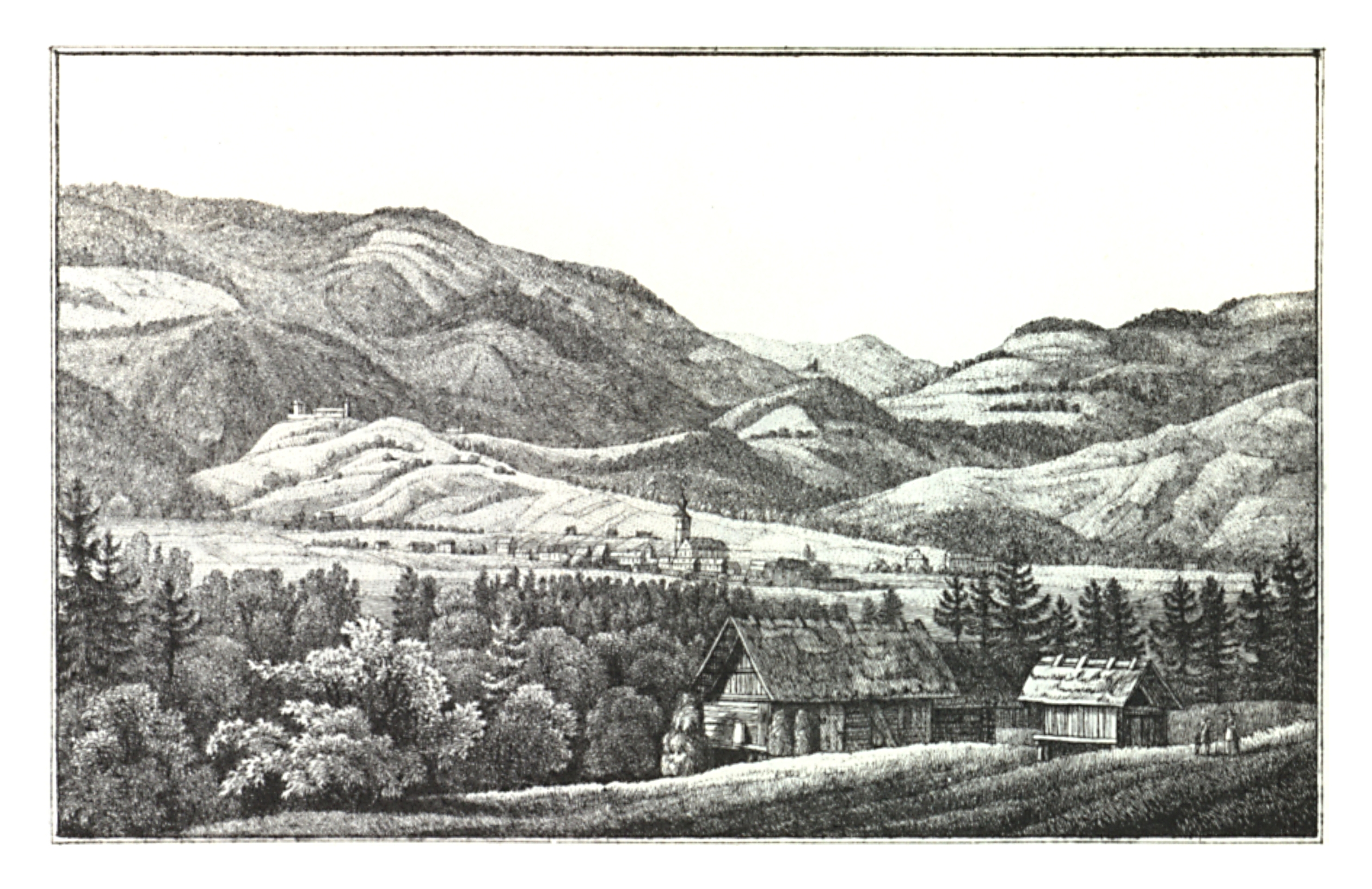 J. F. Kaiser - lithographirte Ansichten der Steyermärkischen Städte, Märkte und Schlösser Graz, 1825 Scanprojekt Community Projektbudget 2012 This scan or this PDF-file was created within the GLAM-project Bookscanning, supported by Wikimedia Germany and Wikimedia Austria as a part of the community-project to capture books, documents and pictures which are not eligible to copyright or for which the copyright has expired. This document describes or depicts an object which is located in Austria today. Send requests for uncompressed scans to Hubertl. This work is in the public domain in its country of origin and other countries and areas where the copyright term is the author's life plus 100 years or fewer. You must also include a United States public domain tag to indicate why this work is in the public domain in the United States. This file has been identified as being free of known restrictions under copyright law, including all related and neighboring rights.